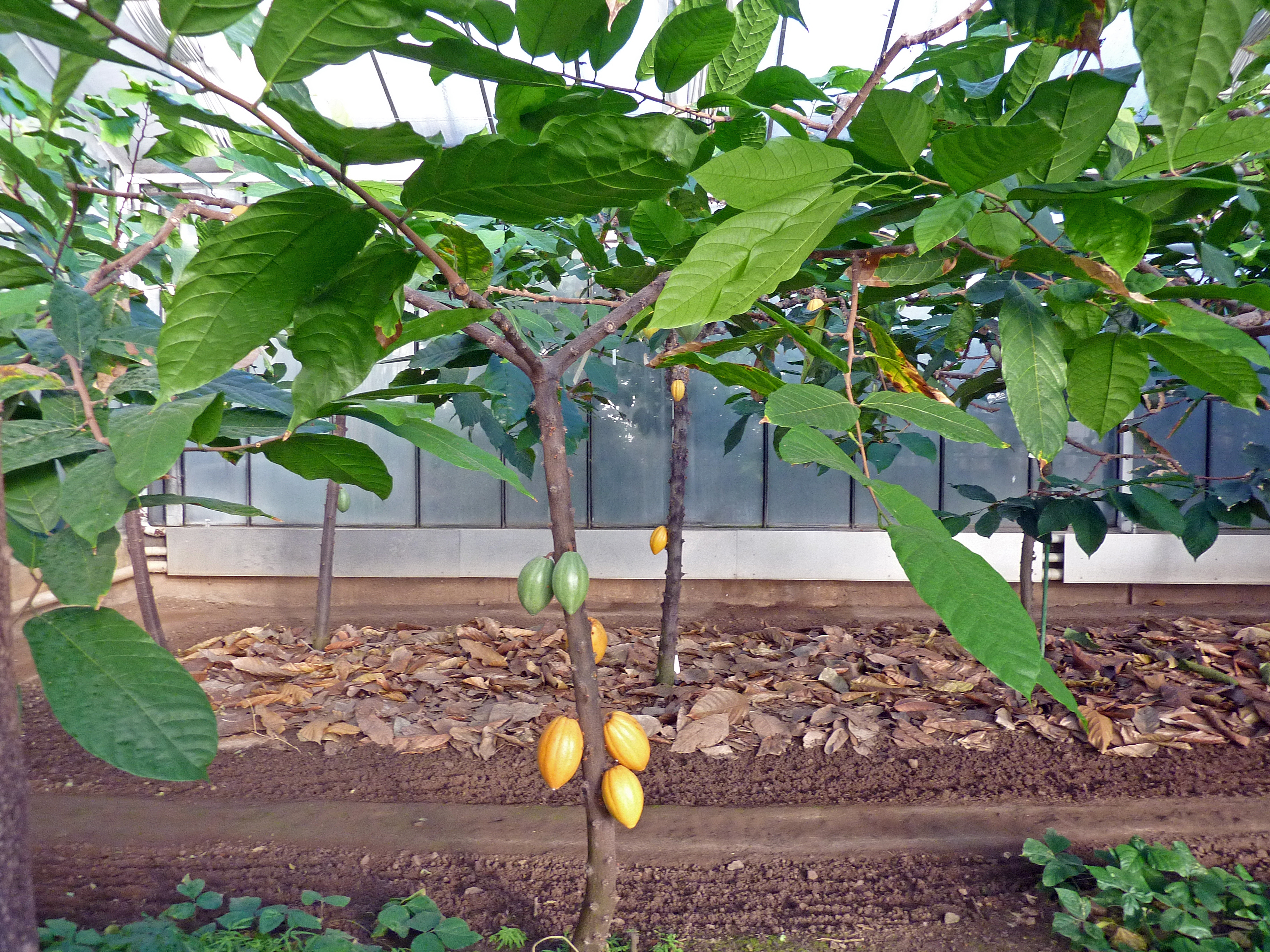 Theobroma cacao growing in the greenhouse of the Deutsches Institut für tropische und subtropische Landwirtschaft, Witzenhausen, Germany